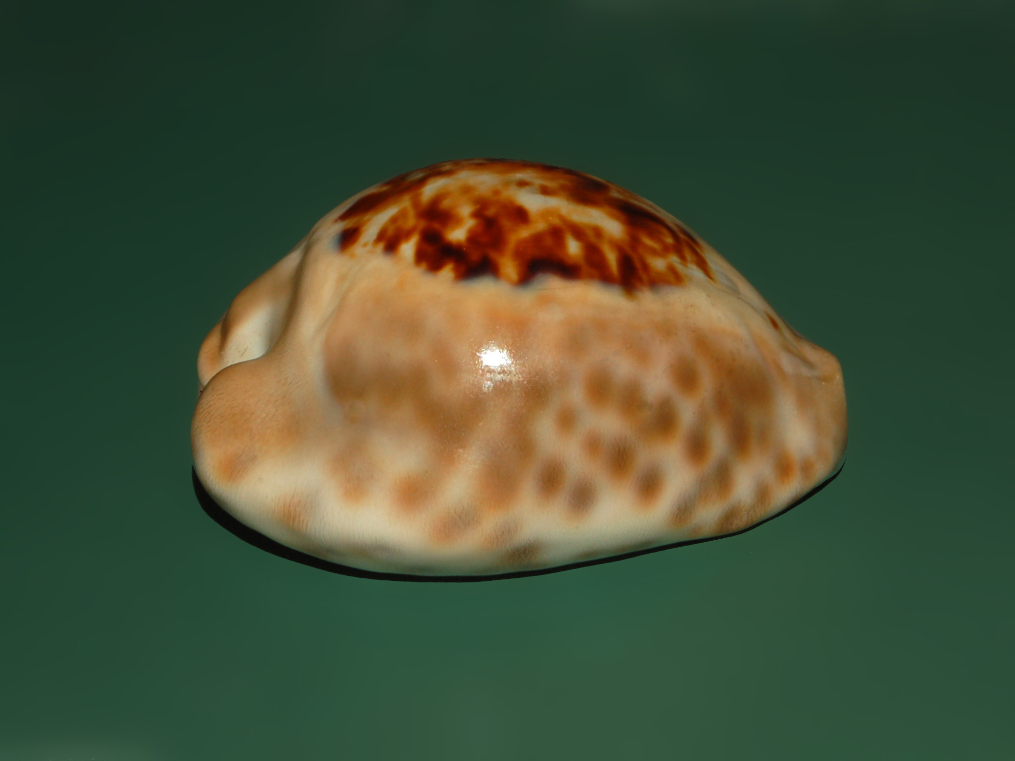 Bernaya teulerei